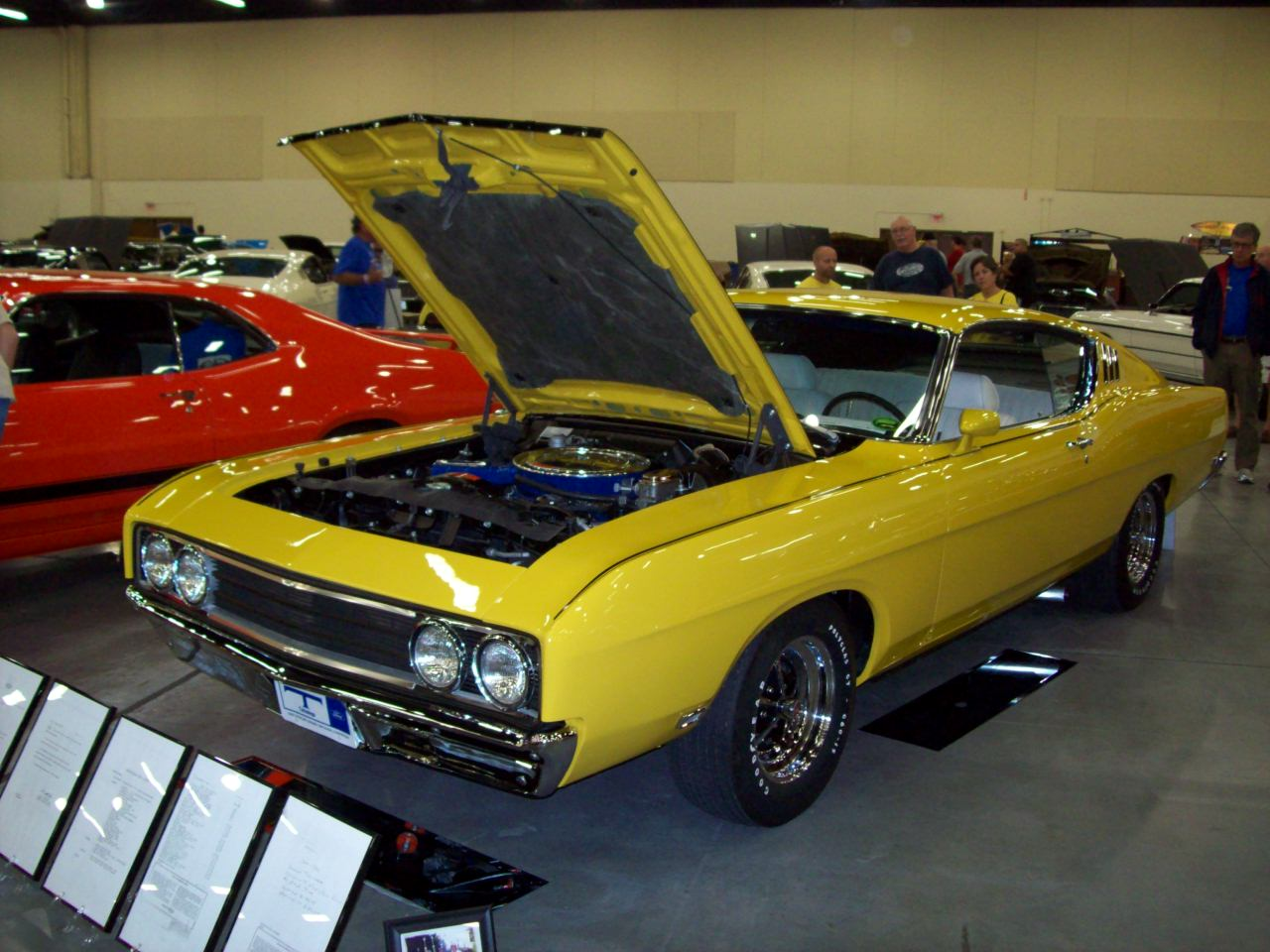 Bunkie Knudsen's personal Talladega built in honor of Benny Parsons